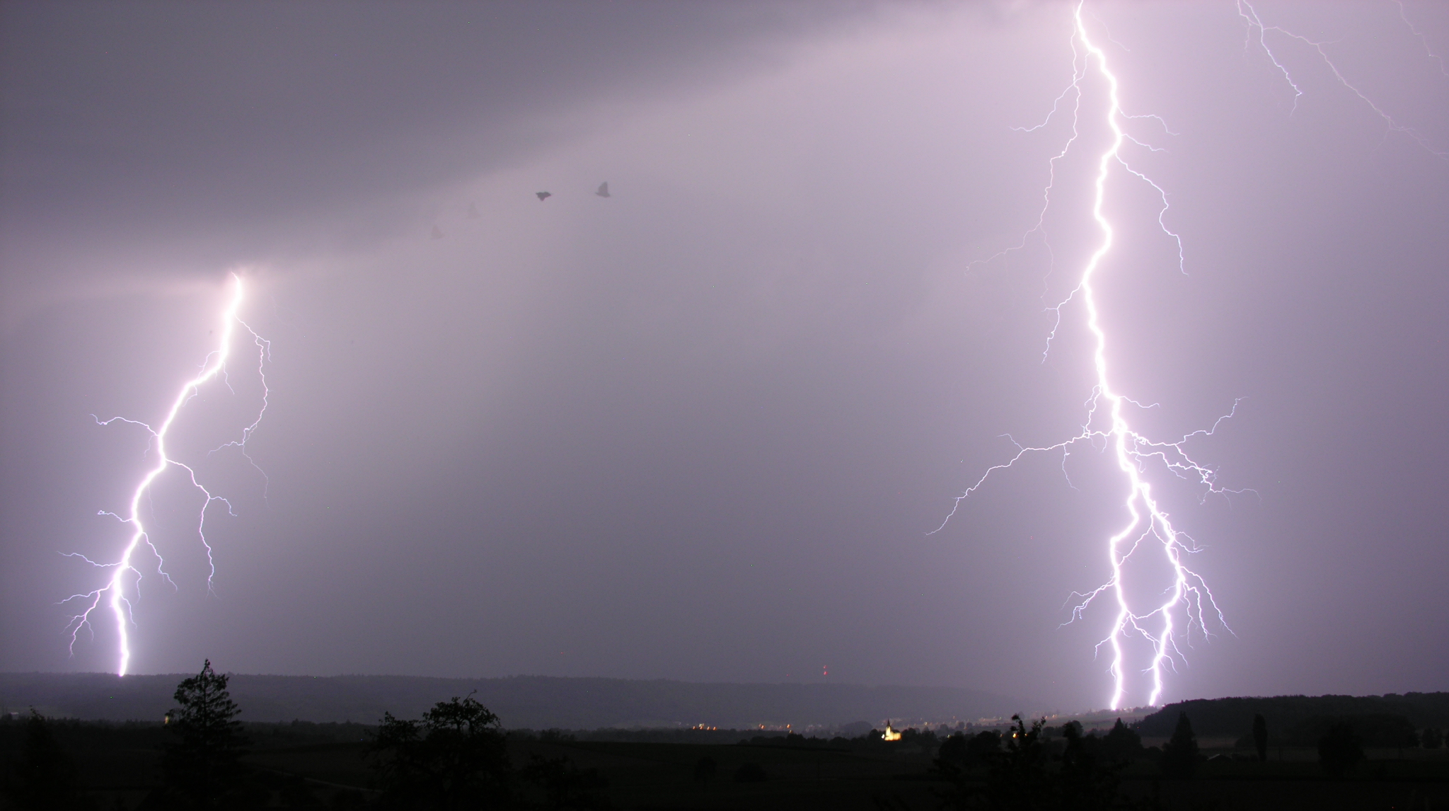 Switzerland, Canton of Schaffhausen, Picture in the Picture: Lightning over Schaffhausen and Kohlfirst, photographed from Dörflingen. The bird in the picture appears 4 times because of the stroboscopic effect of the lightning.